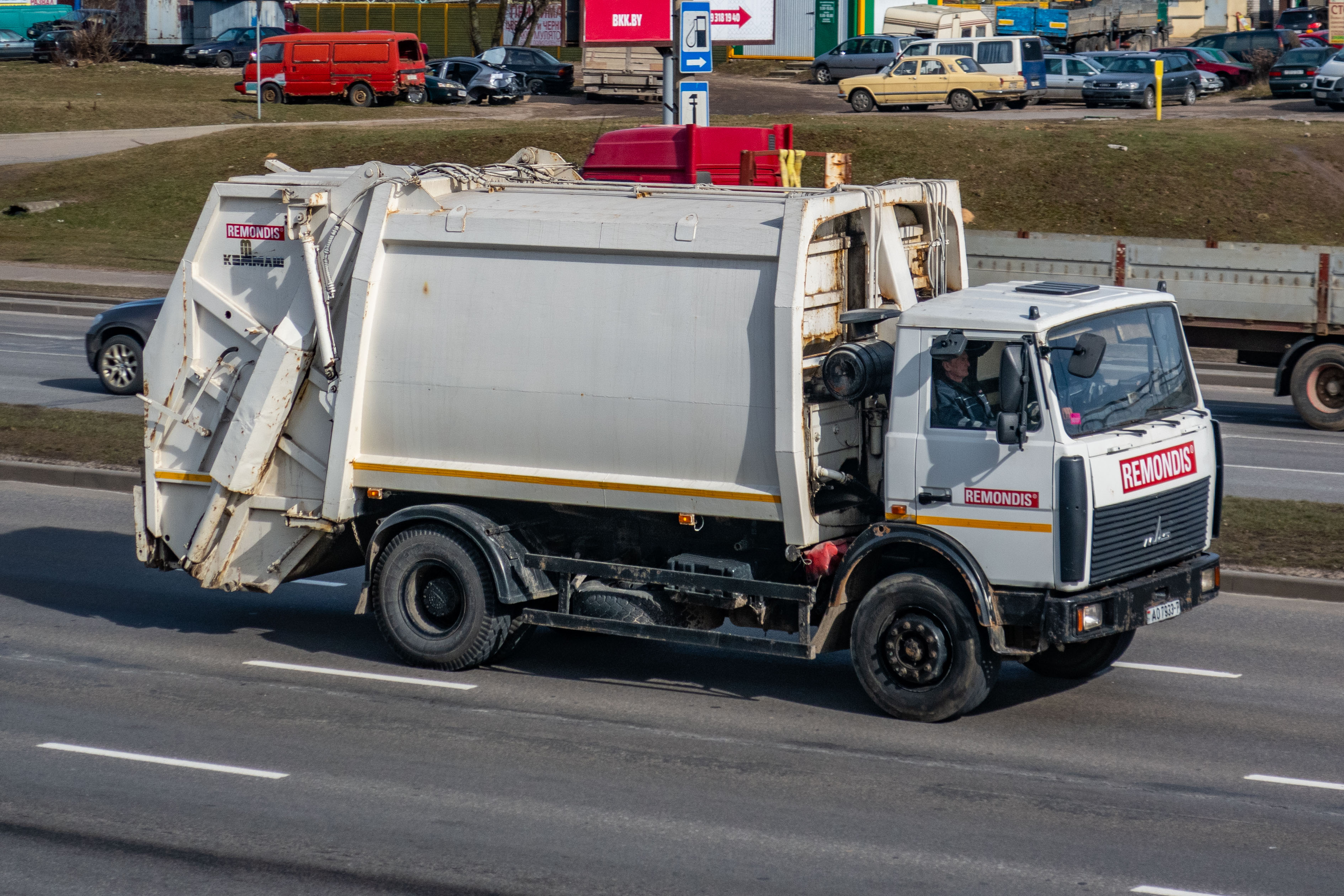 MAZ garbage truck. Minsk, Belarus